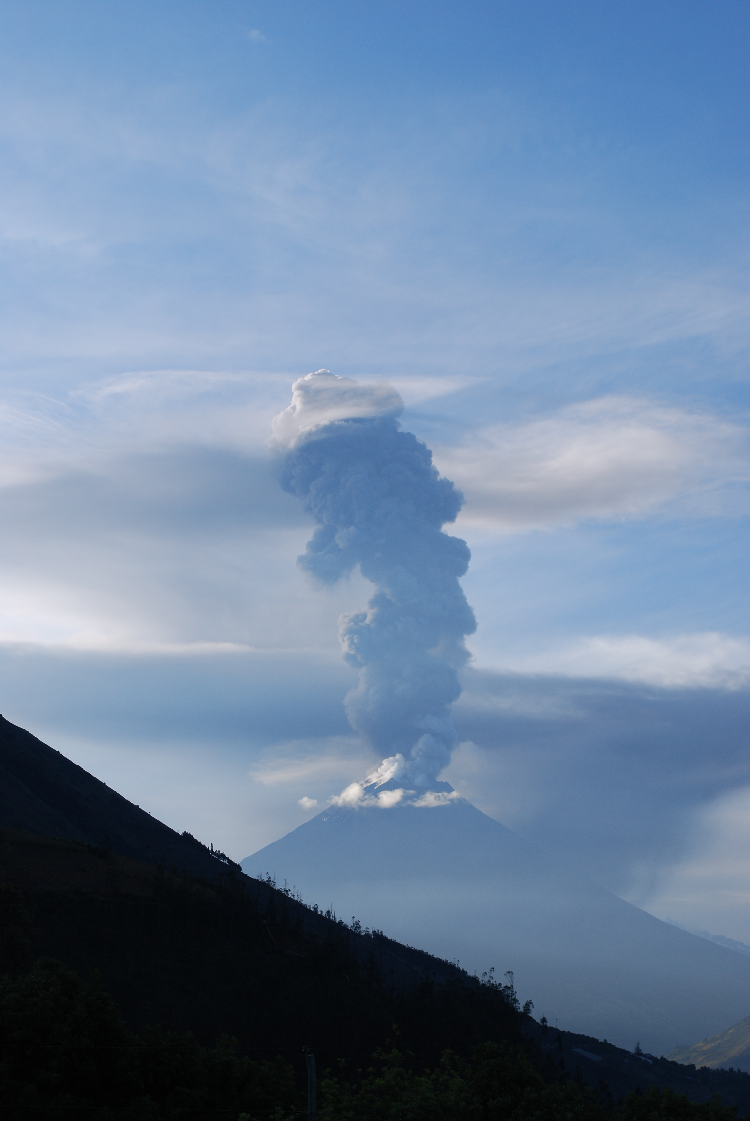 Ash erupcion of Tungurahua, photo taken from Chalpi, Patate, Tungurahua, Ecuador